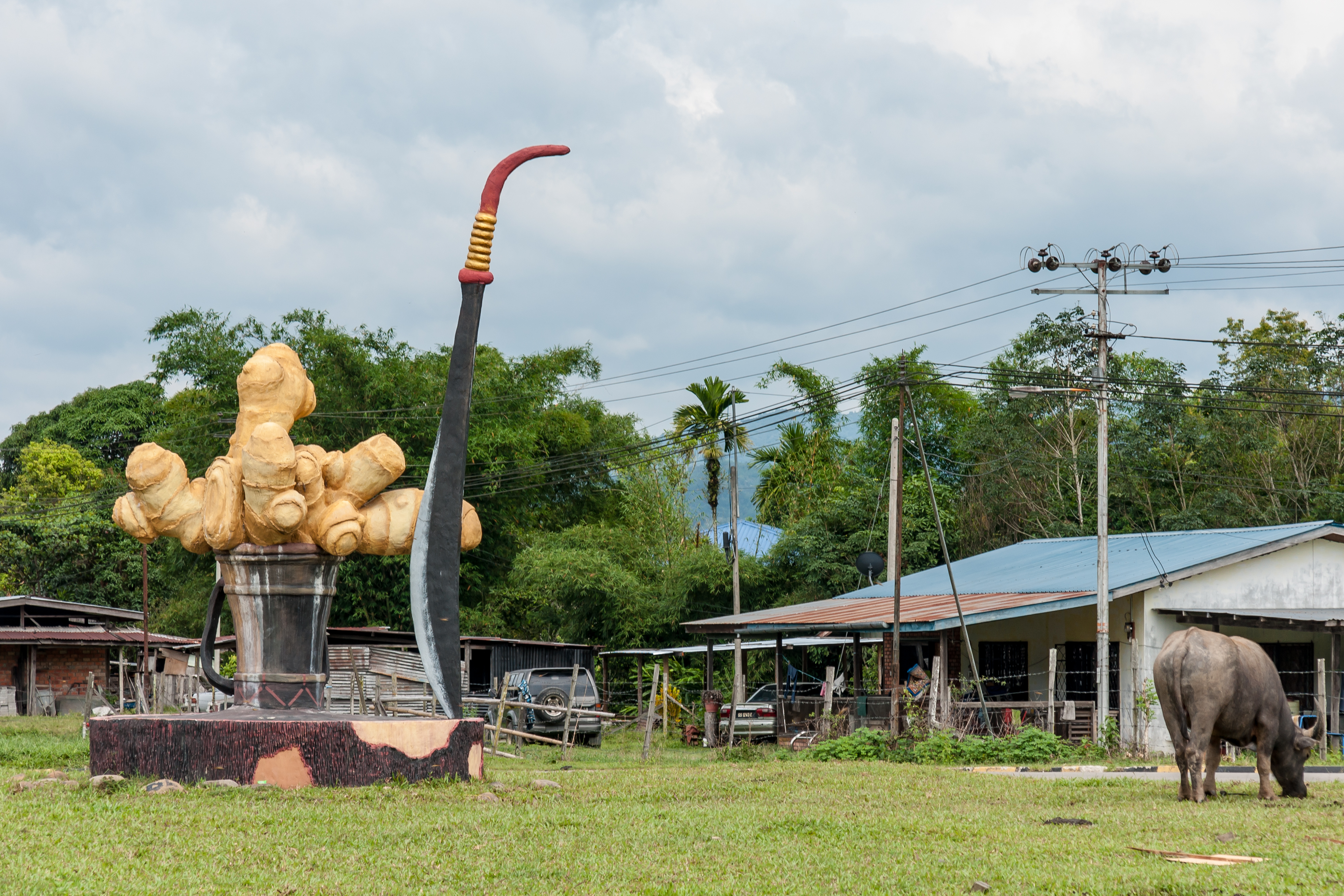 Welcome Sculpture of District Tambunan at roundabout Tambunan/KK/Ranau